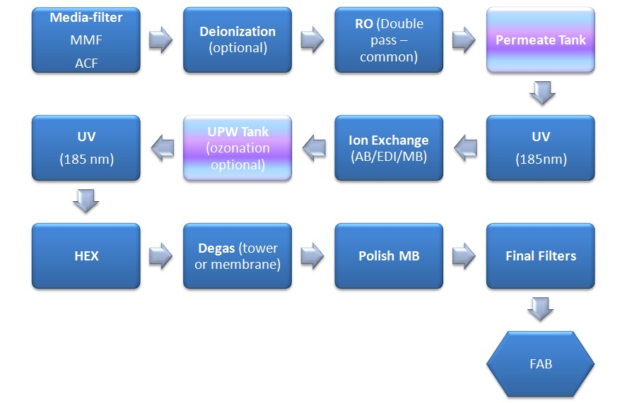 Outline for a typical ultrapure water purification system for a semiconductor plant.